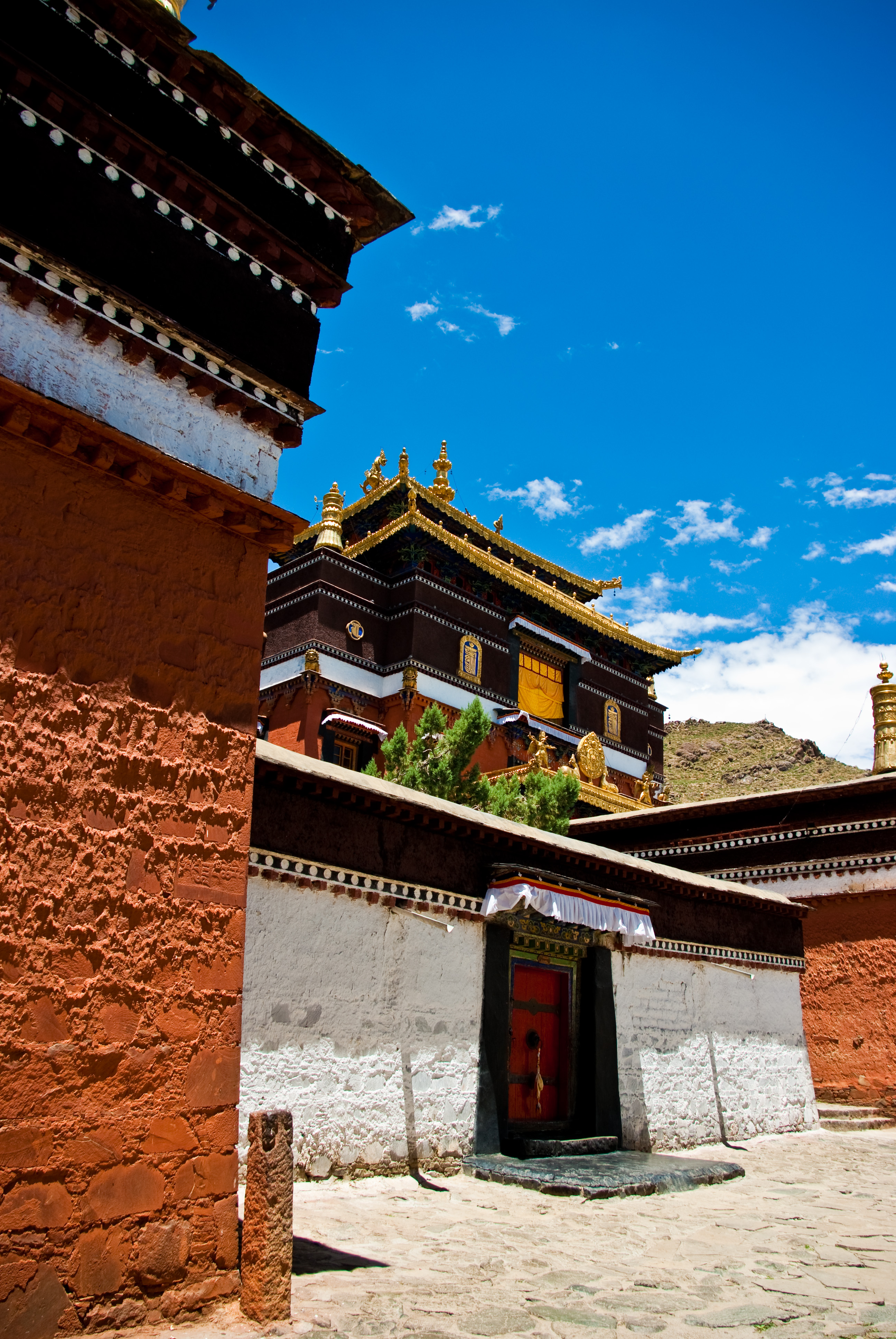 The Tashilhunpo